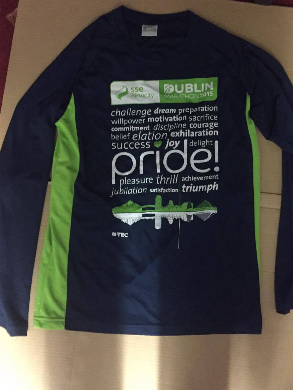 T-Shirt received on completion of the Dublin Marathon 2015